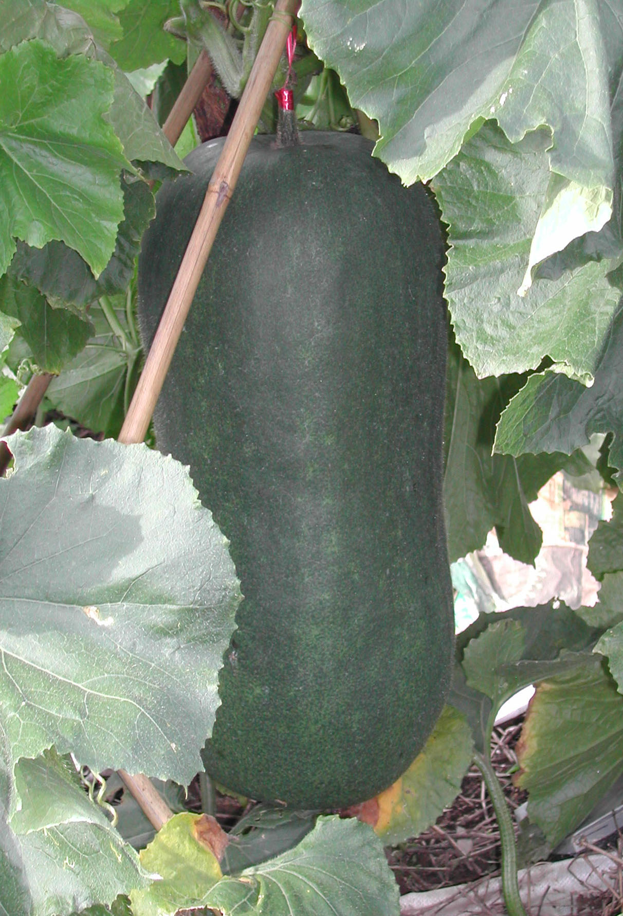 winter melon. Photo taken in Hong Kong.